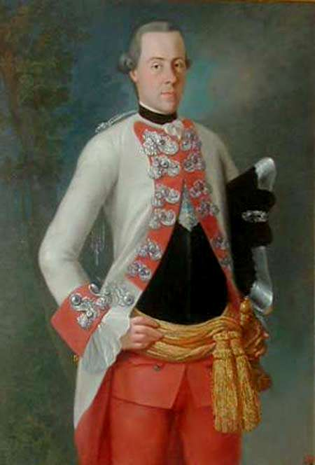 Liven, Genrikh Iogann